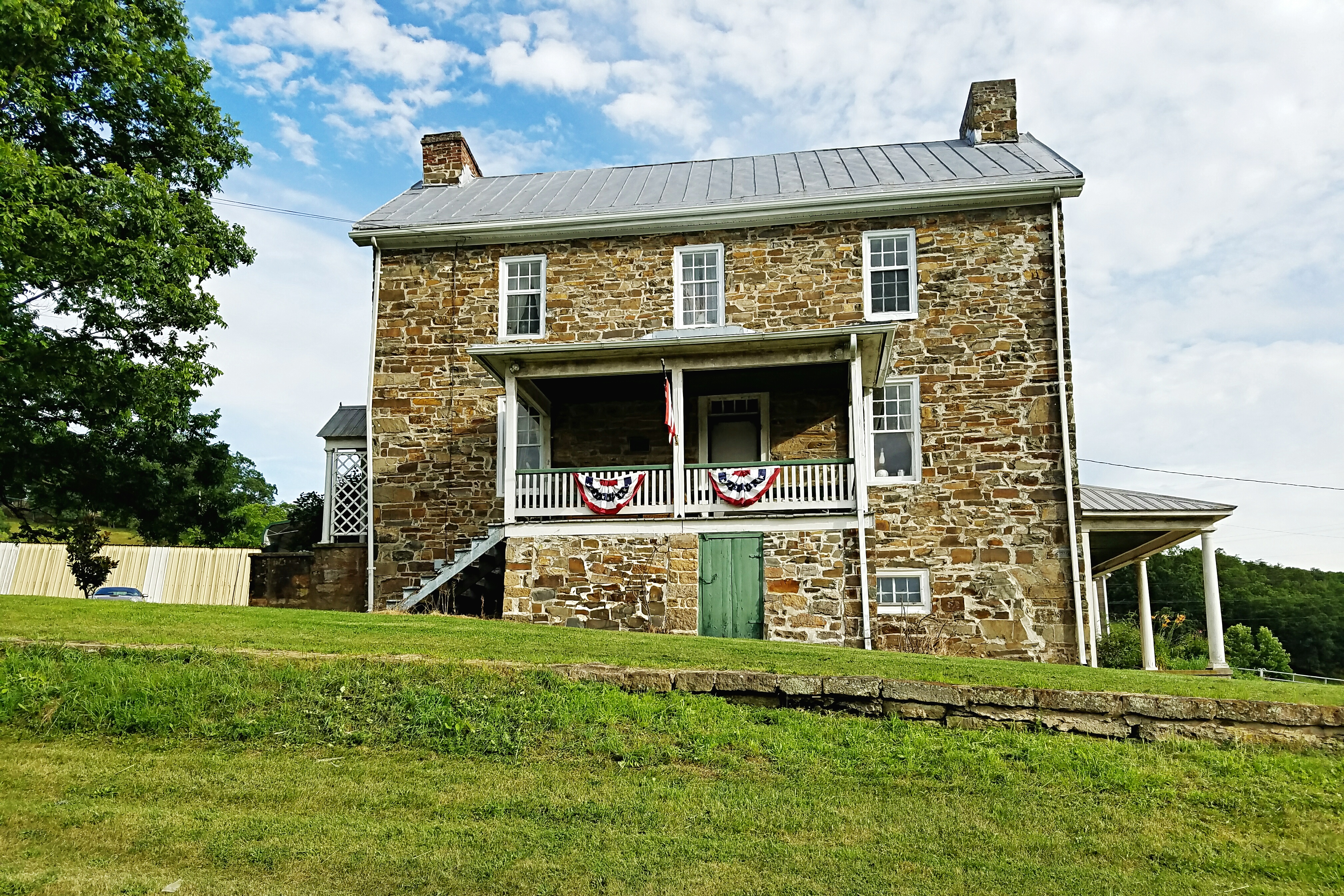 The Sloan-Parker House or Stone House, constructed in 1790 of locally quarried fieldstone for Richard Sloan, was listed on the National Register of Historic Places in 1975. It is located along the Northwestern Turnpike (U.S. Route 50) near Junction, West Virginia. Photographed by Arun Prakash of Washington, D.C. on July 2, 2016.